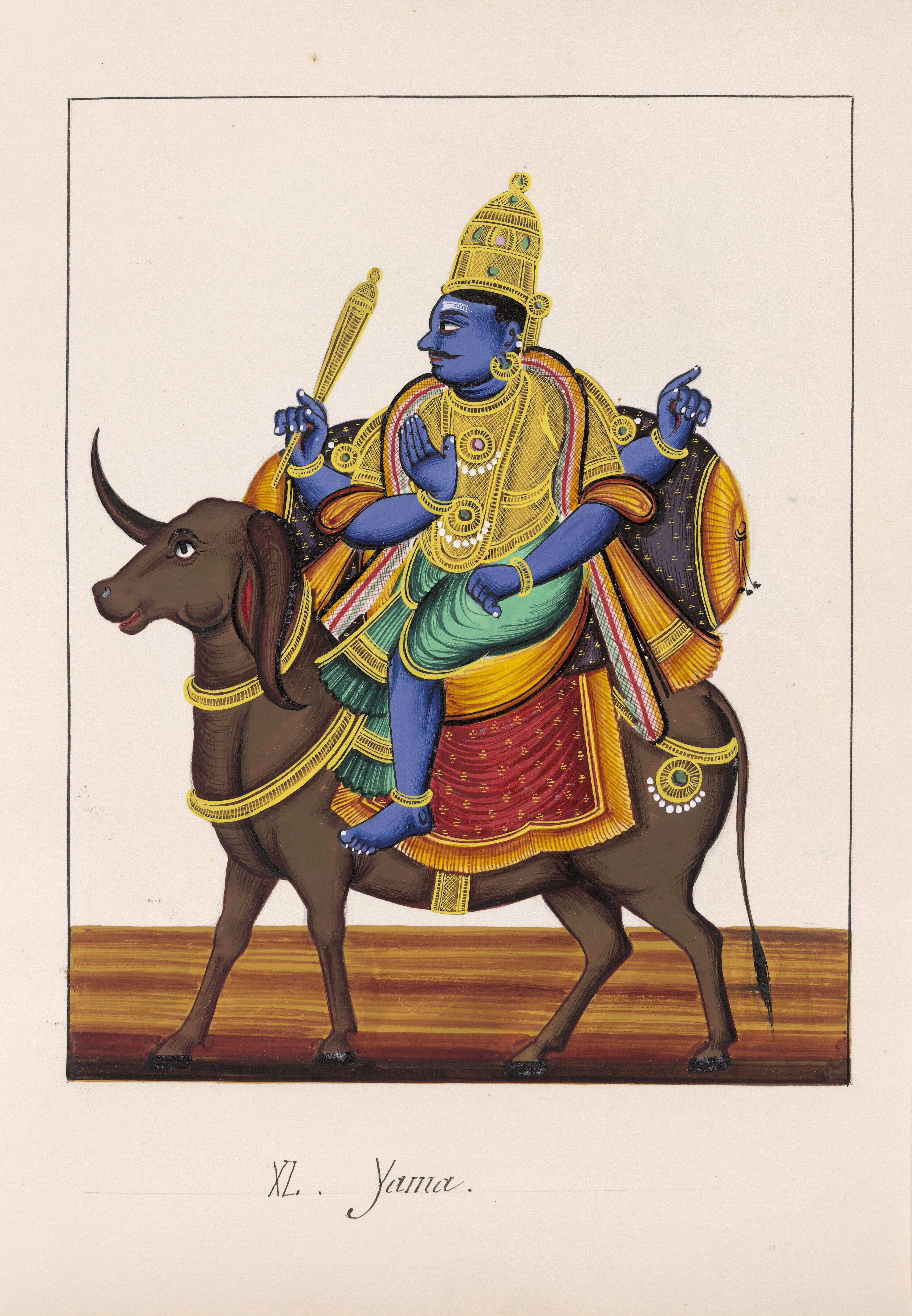 Gouache painting on paper from an album of eighty-two paintings of Hindu deities. Four-armed and dark-complexioned Yama rides on his bejewelled and caparisoned buffalo. In his upper right hand is the danda (staff). His upper left is in suchi mudra, his lower right is in abhaya mudra, and his lower left is by his waist.